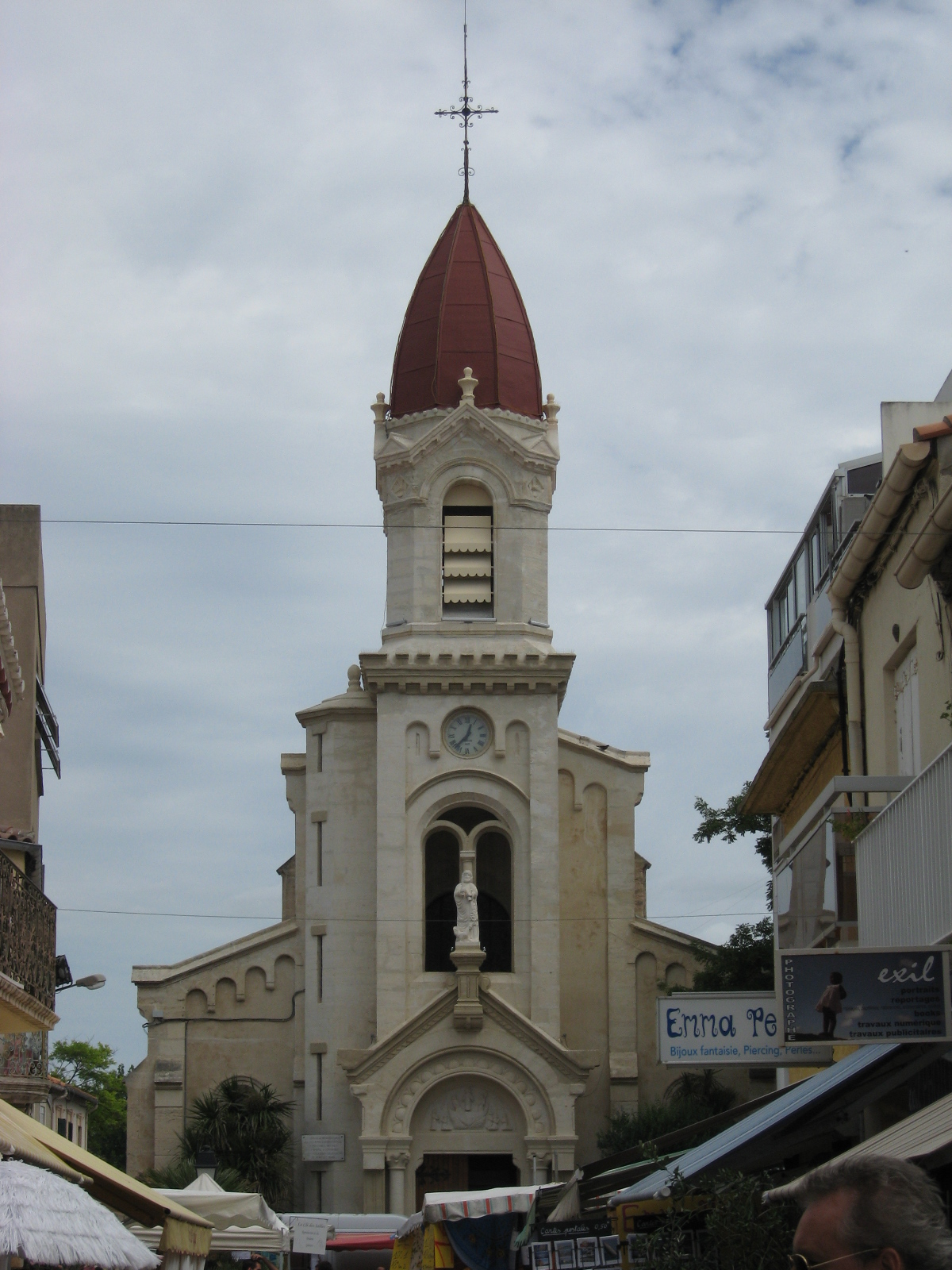 Church Saint Peter of Palavas-les-Flots (France)